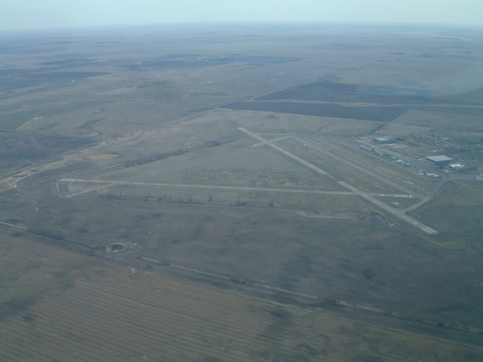 Overview of Weyburn Airport, Saskatchewan. Taken from 3500' ASL.